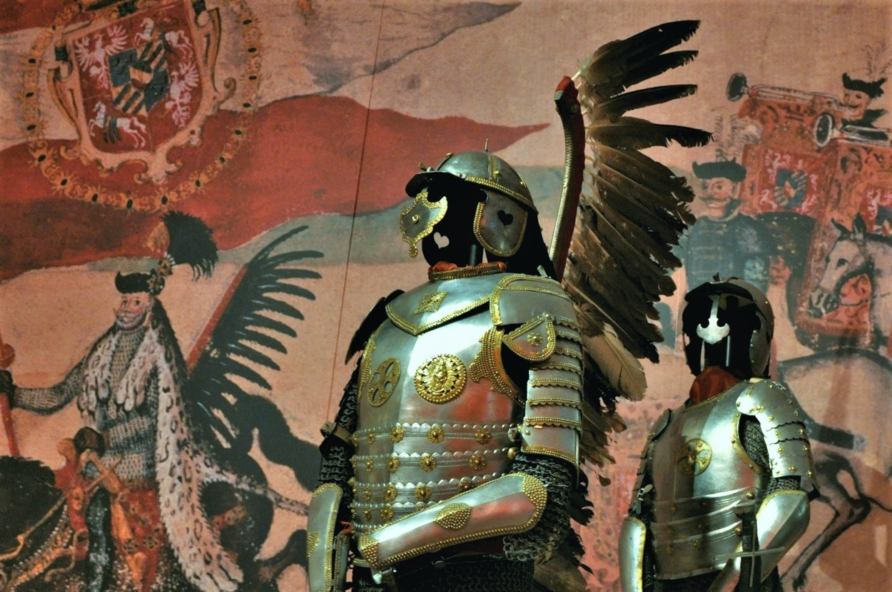 Polish Hussar's half-armour, mid-17th century (National Museum in Kraków). The Winged Hussars (Husaria) were the elite of the Polish-Lithuanian Commonwealth army between the 16th and 18th centuries, being a unique, highly trained, manoeuvrable, hard-hitting, heavy cavalry. The hussars used tactics of speed and manoeuvrability, especially in the charge which was carried out at a full gallop in tight, knee-to-knee formations.